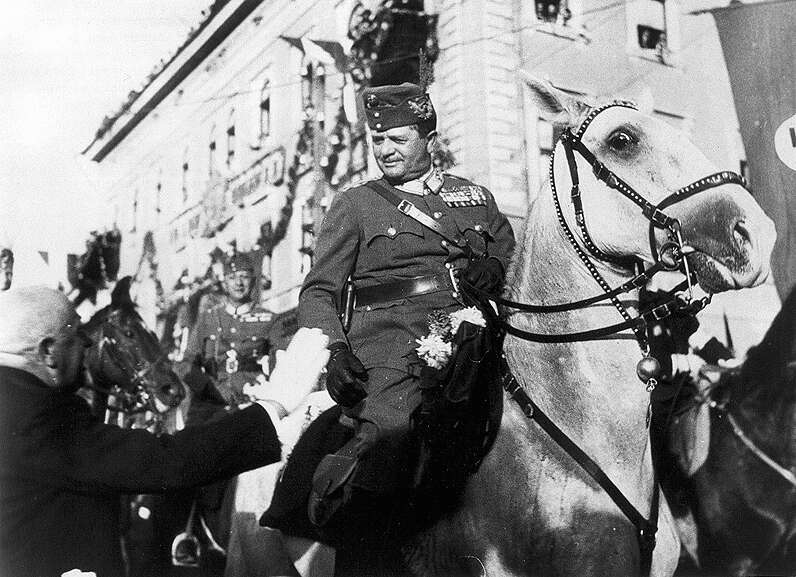 Vilmos Nagy de Nagybaczon marches to Marosvásárhely 10. Sept. 1940.